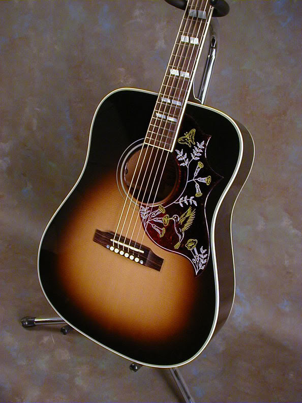 In 2008, Gibson made a very few Hummingbird Modern Classics with a Vintage Sunburst finish.